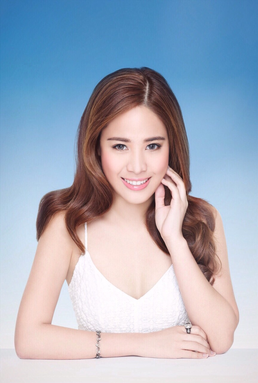 Mind Khunteera Pachimsawat